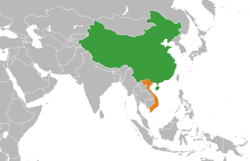 Locator map